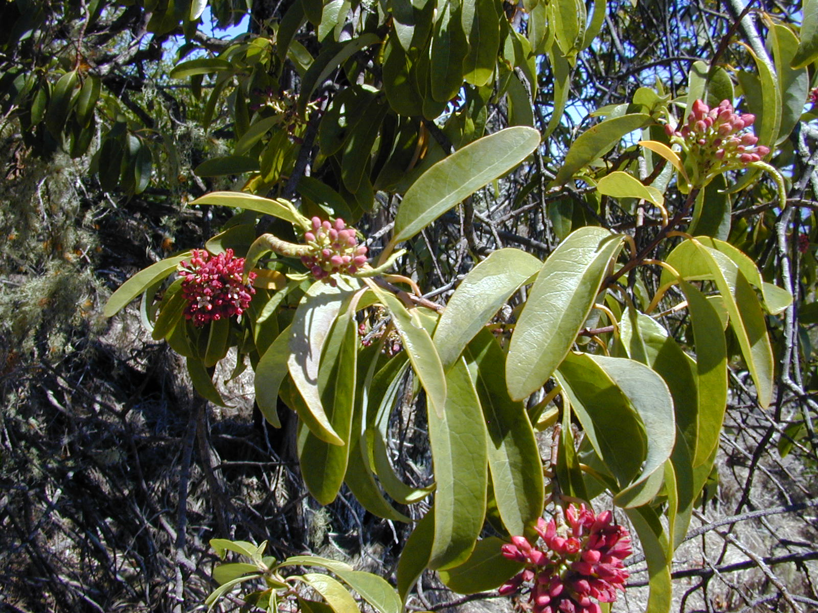 Santalum freycinetianum var. lanaiense (leaves and flowers). Location: Maui, Auwahi